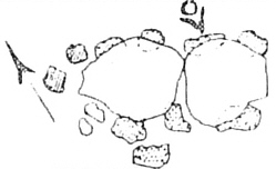 Outline of the dolmen Schadewohl 2, Saxony-Anhalt